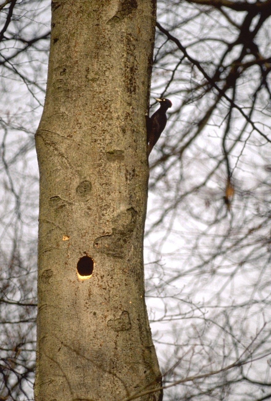 Black woodpecker (Dryocopus martius), Forêt de Hez-Froidmont, Picardie, France.